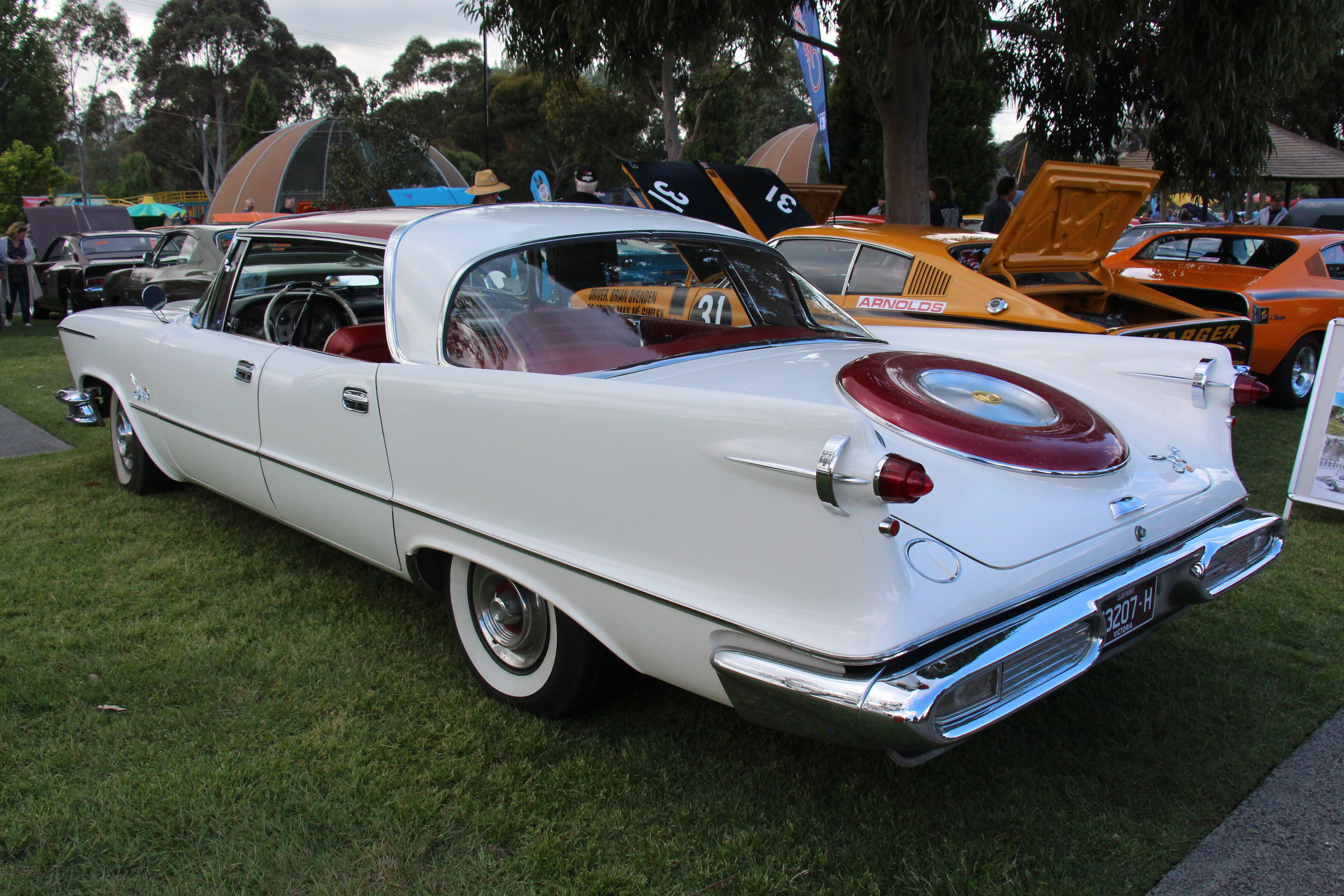 The Chrysler Corporation was founded in 1925. In 1928, Chrysler expanded, he established Plymouth and DeSoto brands and also acquired Fargo Trucks and Dodge Brothers Motors and started selling vehicles under those names. 1957 saw the new forward look design with dramatically lower bodies, crisp thin-section rooflines, acres more glass, and lean dart-shaped profiles with soaring tailfins. Five models were now available; The base model was still the Windsor The mid spec model was the Saratoga The upmarket model was the New Yorker The high performance model was the 300C 2 door Hardtop. From 1955, the long Wheelbase Imperial was marketed under its own brand, not using the Chrysler name, it was available in base Custom, mid range Crown and top LeBaron. A convertible was available for the first time as well as 2 and 4 door Hardtops and 4 door Sedan. It featured a 'biplane' front bumper and a full-width egg crate grille. Tall tailfins, gunsight taillights downward tapering decklid. Early in the year, they had single headlamps, quad headlamps were optional where state regulations permitted them. Single headlamps dropped later in the year. Engine; 325hp 392 cu in Fire Power Hemi V8